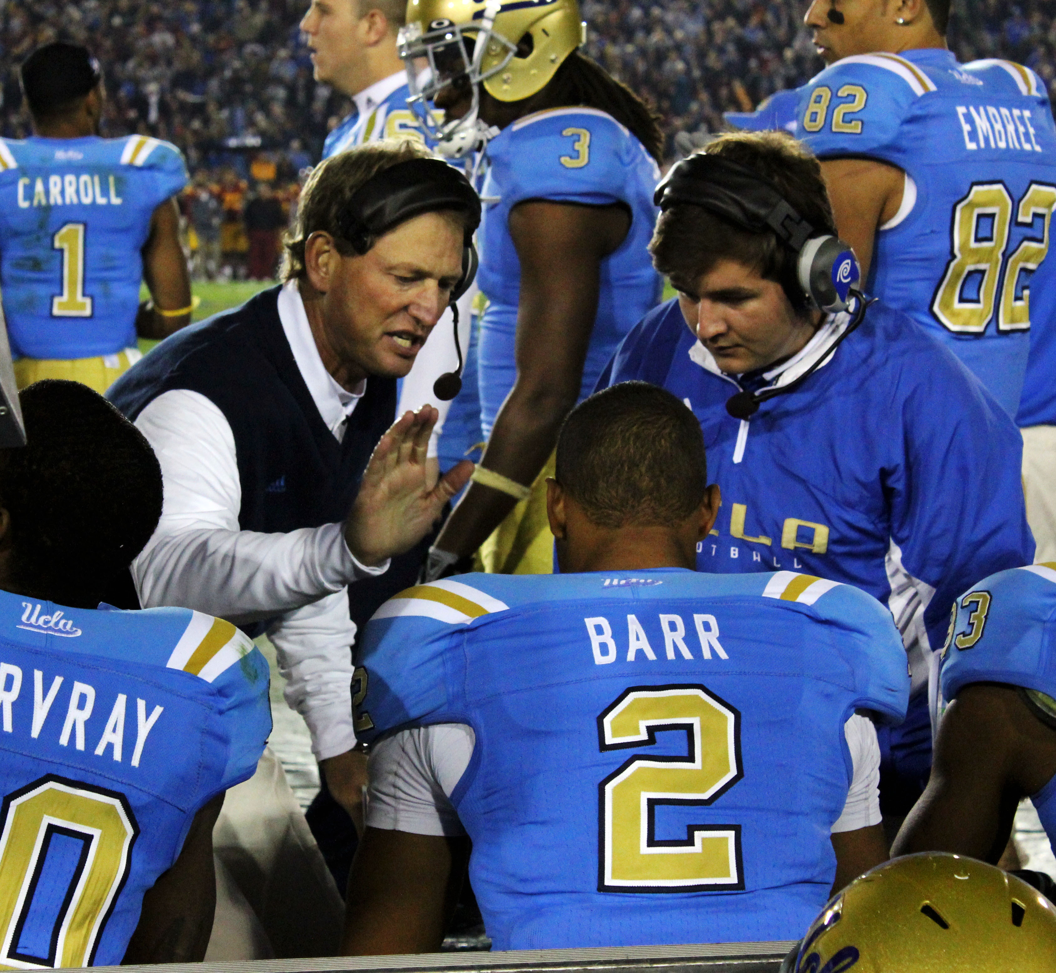 Former UCLA Bruins linebacker Anthony Barr